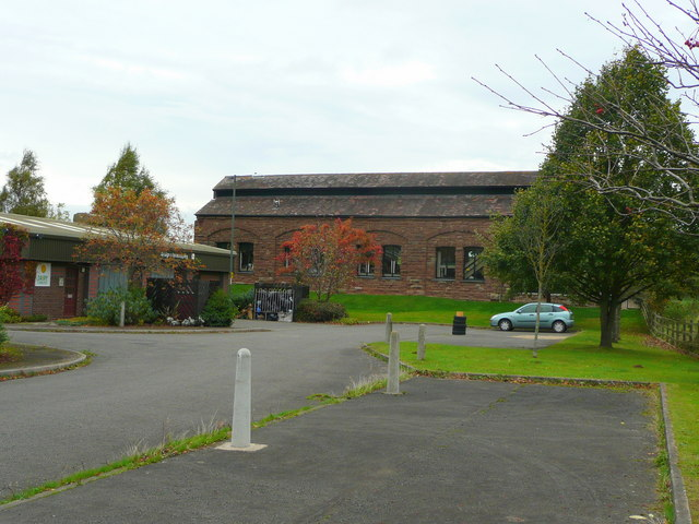 Great Western Court 1 Part of the Ashburton Industrial Estate on the eastern fringe of Ross-on-Wye. The former railway shed is now part of a garden centre.